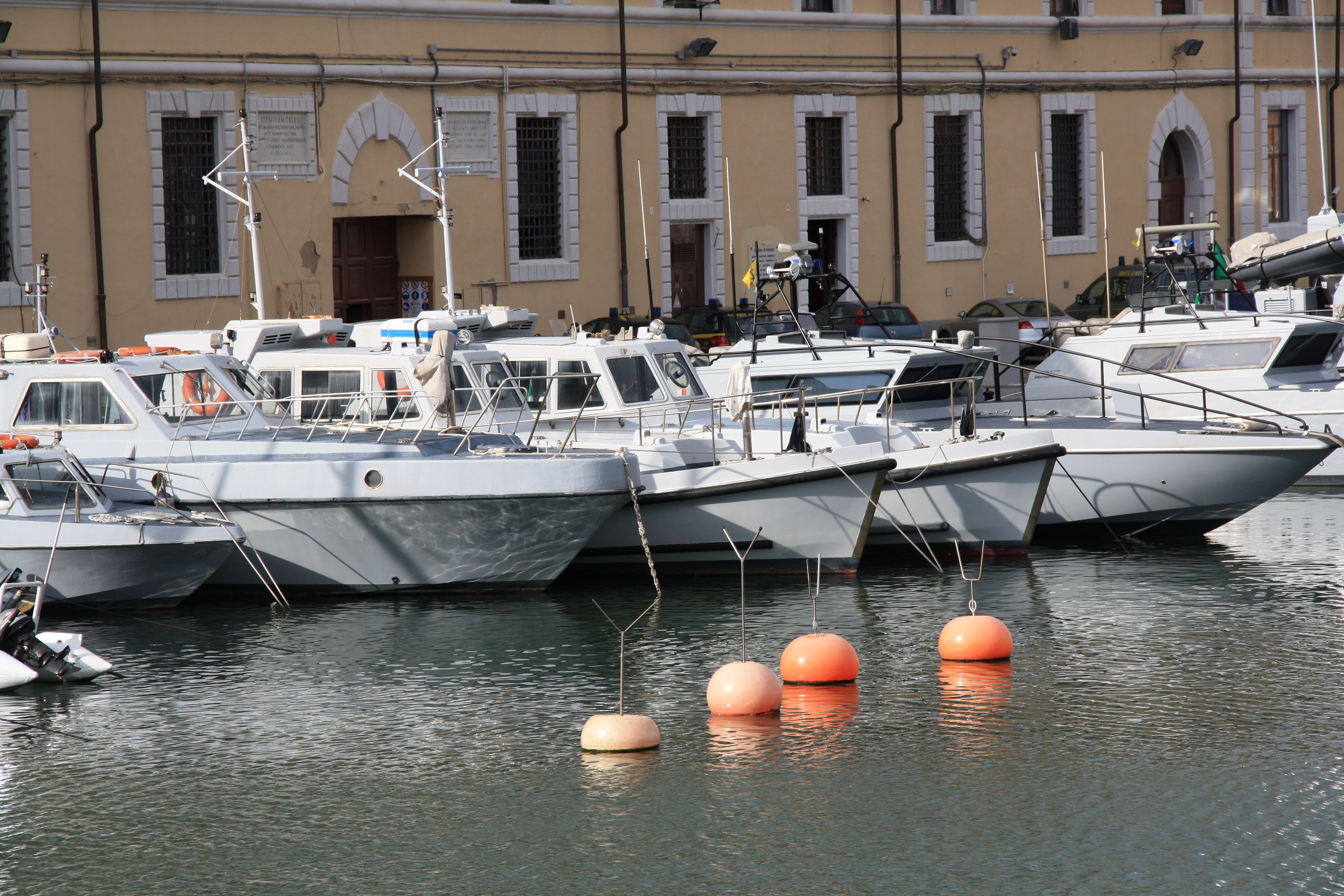 Italy, Port of Livorno. Guardia di Finanza Patrol boat anchored in the “Vecchia Darsena”.